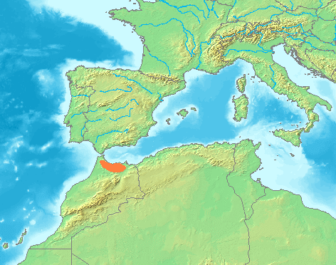 Locator maps for mountain ranges : Location Westerwald.PNG